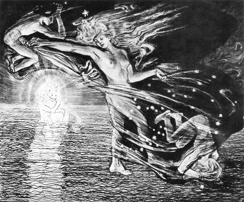 Eos, Phosphoros, Hesperos, Helios, black-coloured pencil drawing, The National Museum in Warsaw.